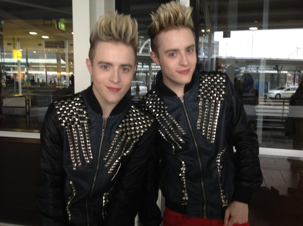 Pop duo Jedward - John and Edward Grimes in Sydney, Australia, 2013